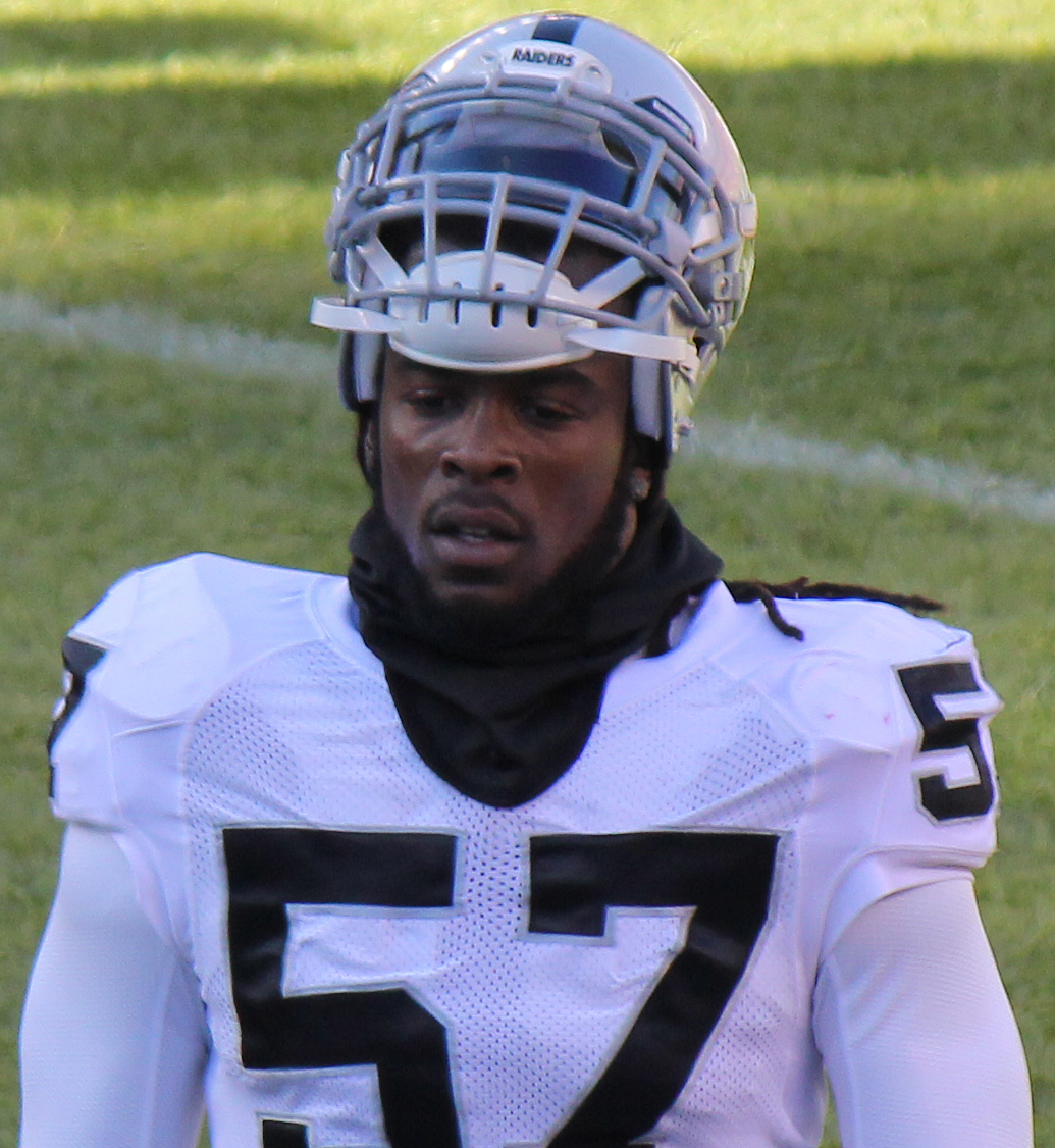 Ray-Ray Armstrong, a player on the National Football League.